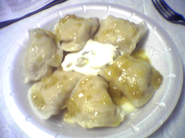 Photo by A. Hentisz. Varenyky prepared by the cooks at St. George Ukrainian Catholic Church, NY, NY.